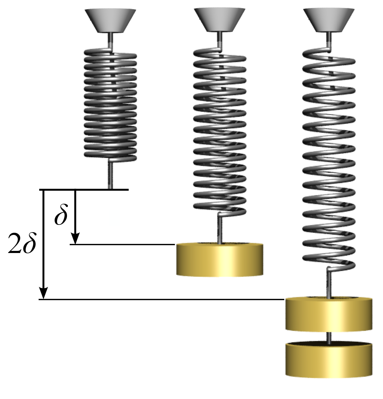 Hooke's law. Symbol "delta" version of File:Hookes-law-springs.png made by User:Svjo